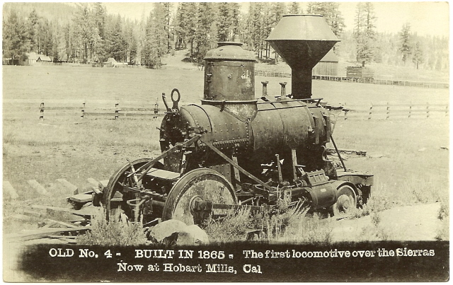 Postcard depicting "Old No. 4" as seen on display in Hobart Mills; eBay store Web page states: "Original, circa 1910 REAL PHOTO postcard. [...] Caption reads "Old No. 4 - Built in 1865 - The First Locomotive Over The Sierras Now at Hobart Mills, Cal". Card is postally unused with an early AZO back"